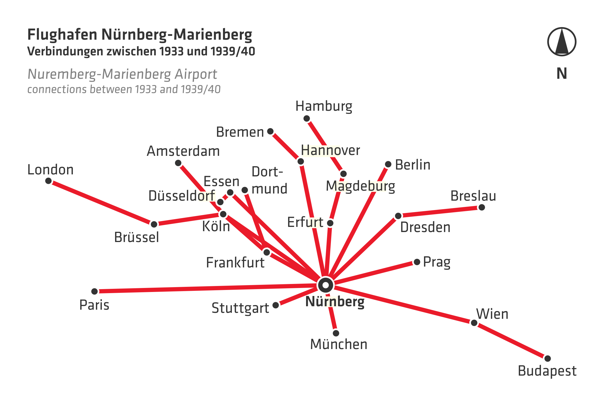 Connections from airport Nuremberg-Marienberg between 1933 and 1939/40